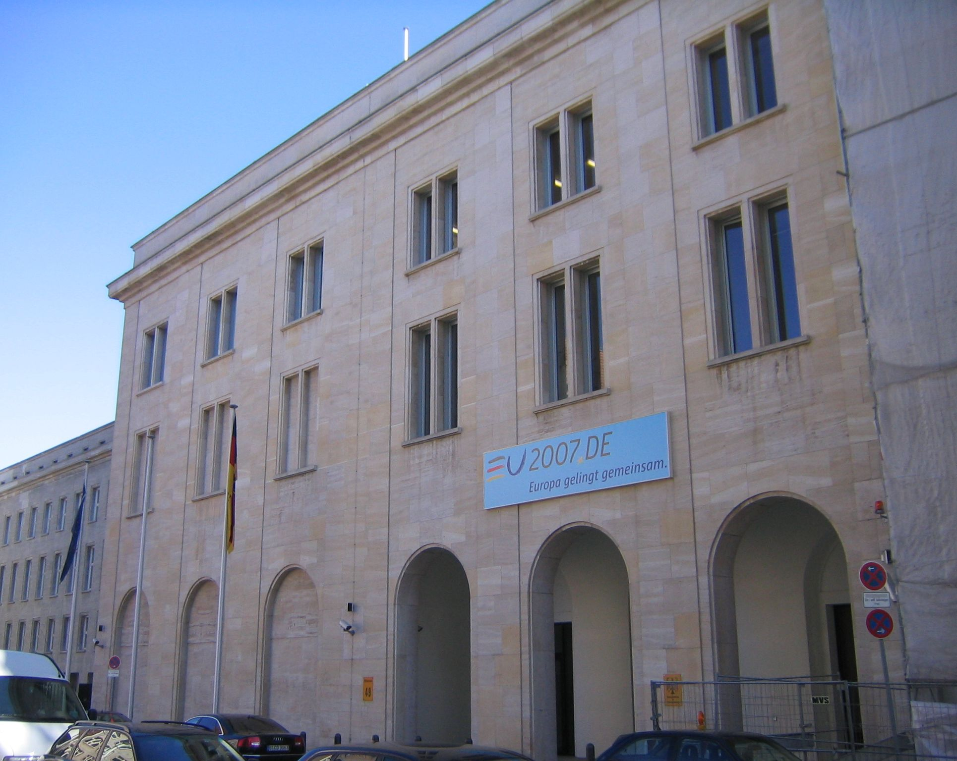 Bundesministerium für Arbeit und Soziales, in Berlin, Haupteingang, Wilhelmstraße 49, Fassade ursprünglich gestaltet von Karl Reichle für das Reichspropagandaministerium